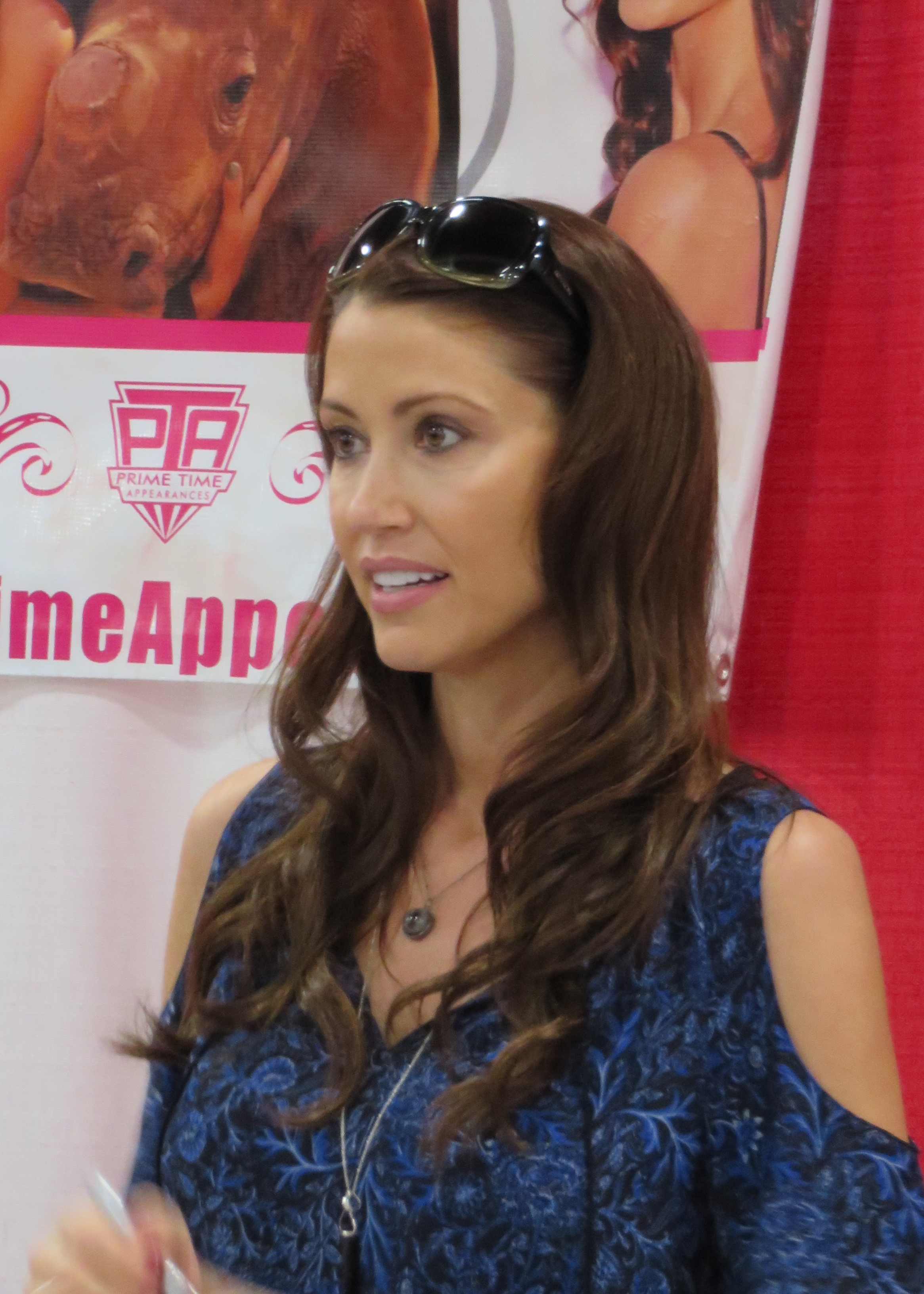 Shannon Elizabeth 02